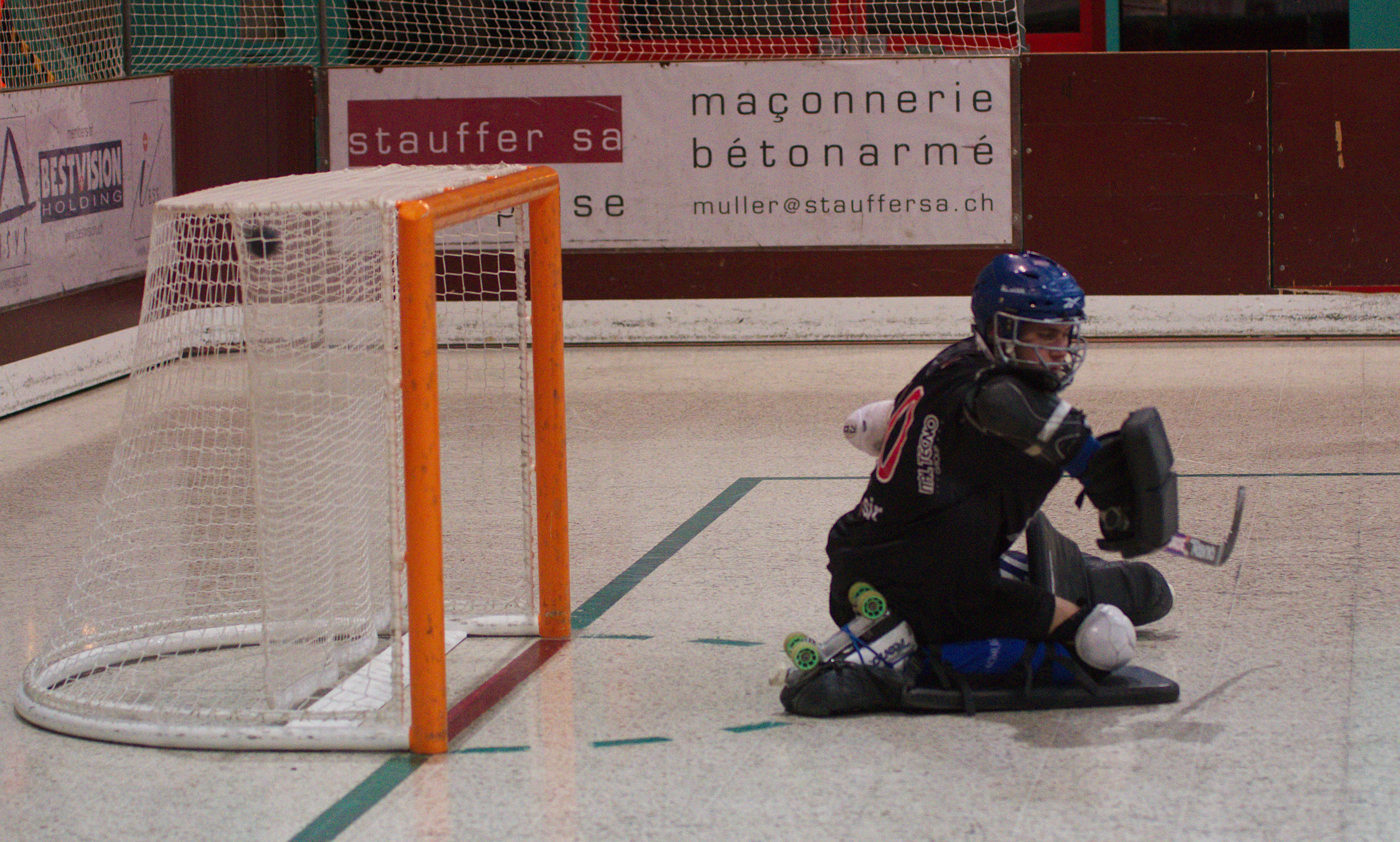 Rink-Hockey Euroleague 2012-2013 - Genève vs Hockey Valdagno